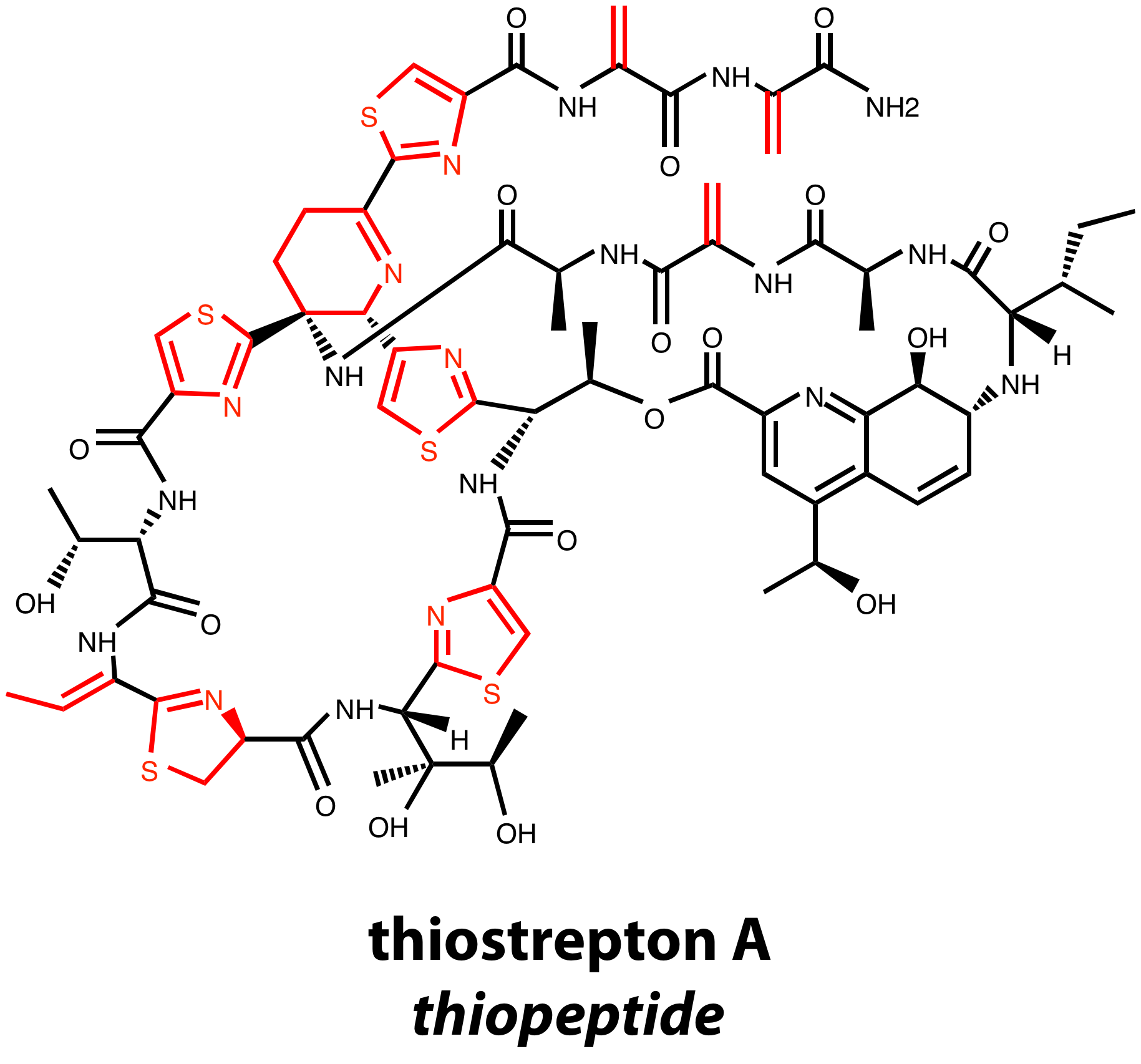 The structure of the thiopeptide thiostrepton A, with features of the thiostrepton class of RiPPs highlighted in red.